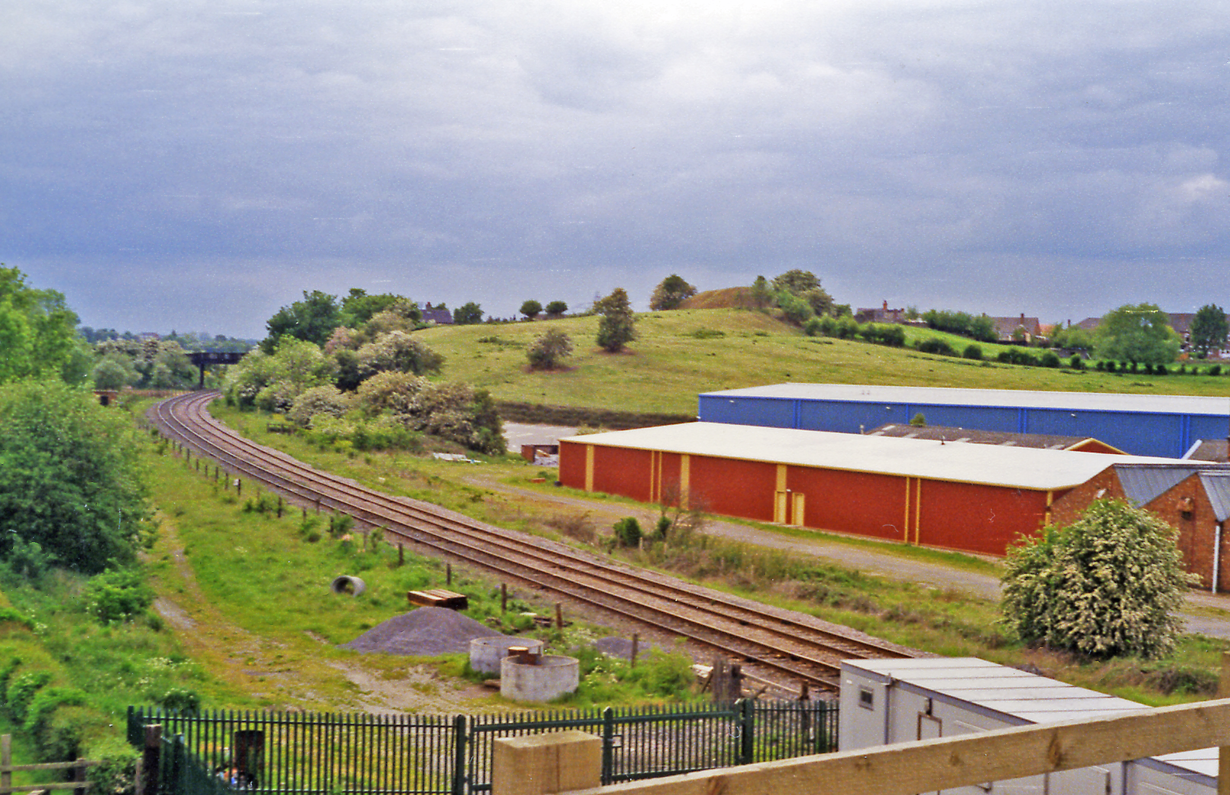 Site of Gresley station, 1995. View westward, towards Burton-on-Trent: ex-Midland Leicester - Burton line. The station, - mainly located off to the right, was closed 7/9/64 when the Leicester - Burton passenger service ceased. However, the line has remained open for freight and may yet have a passenger service on the 'Ivanhoe Line'.